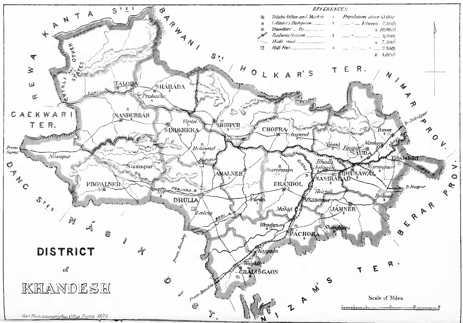 Map of Khandesh District (British-India)